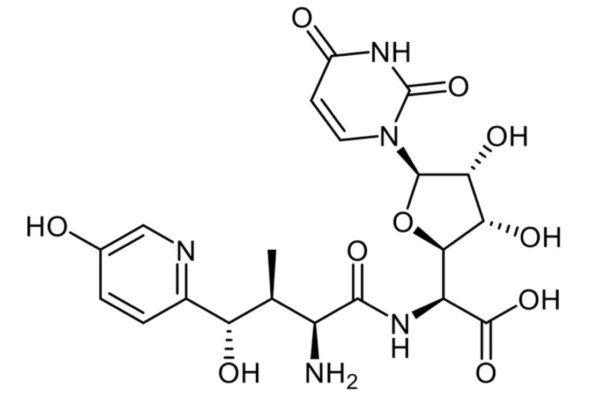 The chemical structure of the antifungal agent Nikkomycin Z. A reference for the structure is Varna et al. 2017.